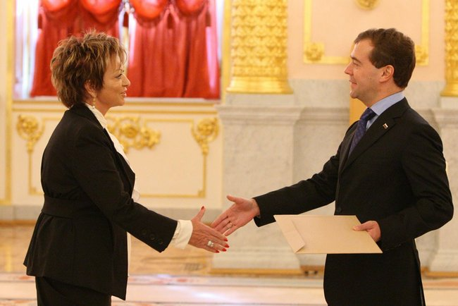 Ambassador of the State of Israel Dorit Golender presents her letter of credence.